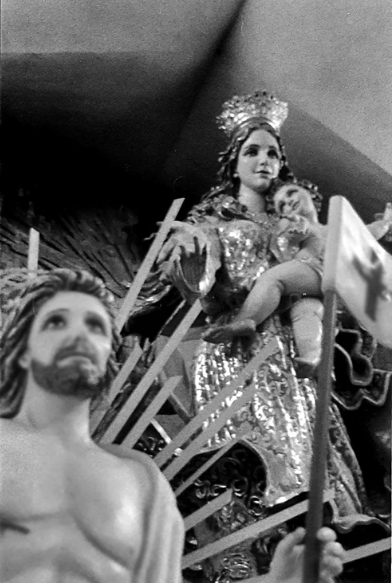 the biggest in America (the whole continent), I presume. 12 Holy Meters of Virgin